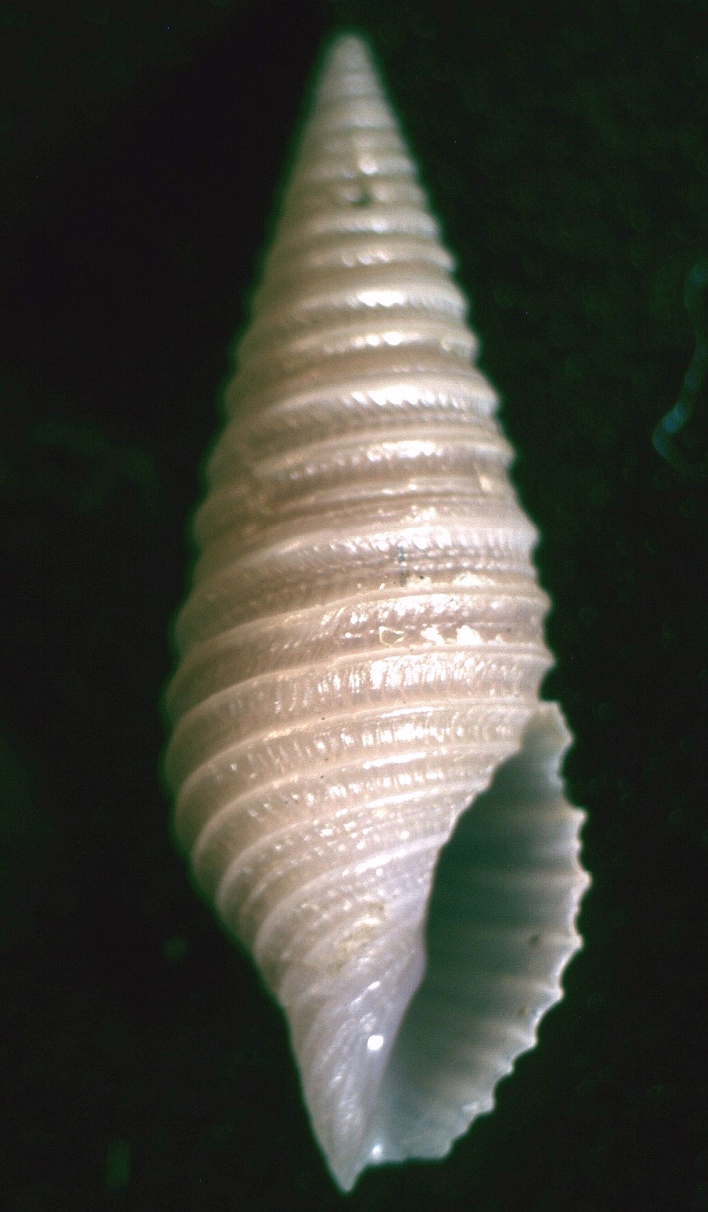 Tomopleura reevii (Adams C. B., 1950), a cone snail from the family Conidae; Philippines